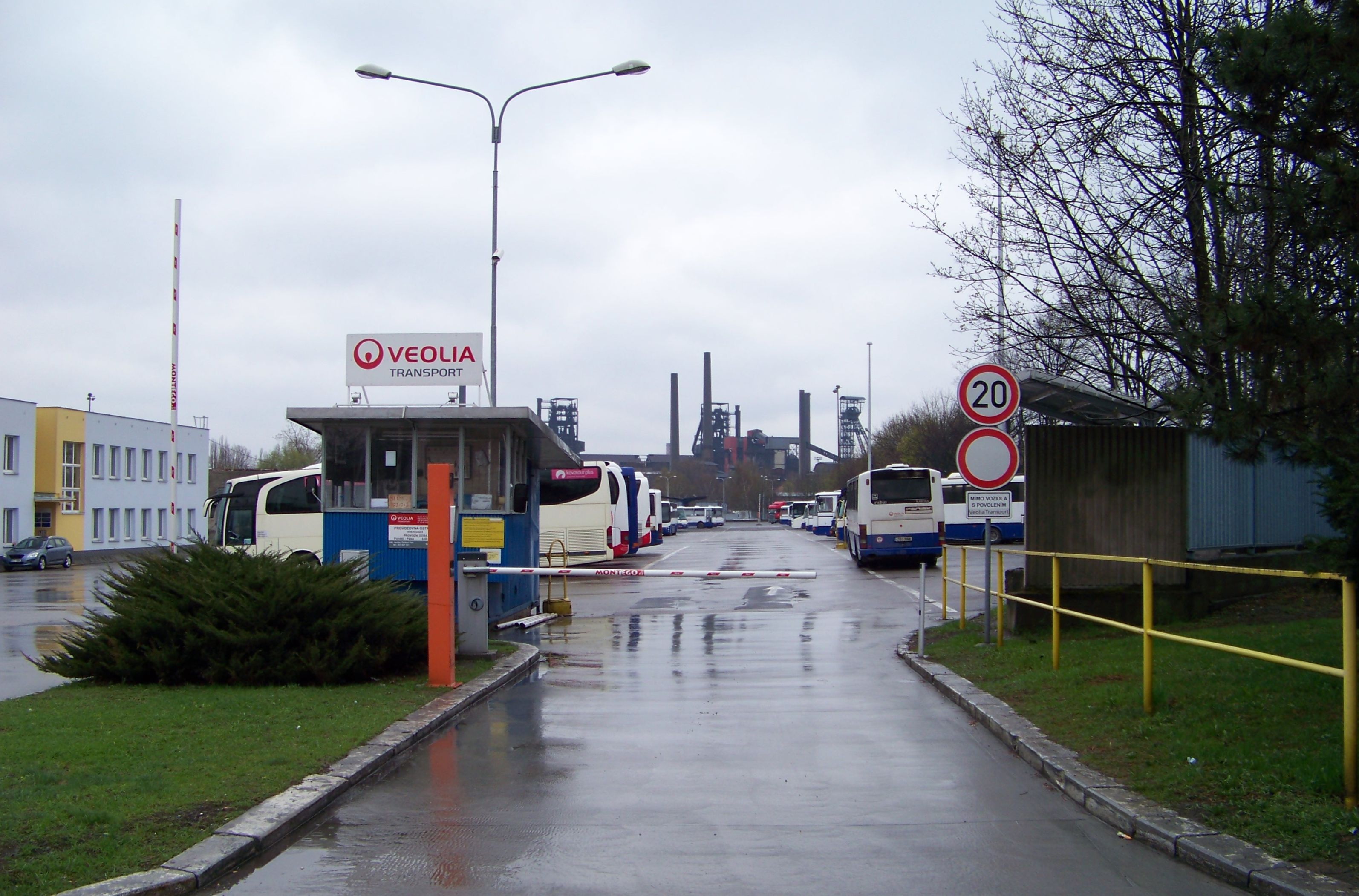 Ostrava-Moravská Ostrava, Moravian-Silesian Region, the Czech Republic. Vítkovická street, a bus depot of Veolia Transport Morava.